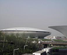 Expo Cultural Center